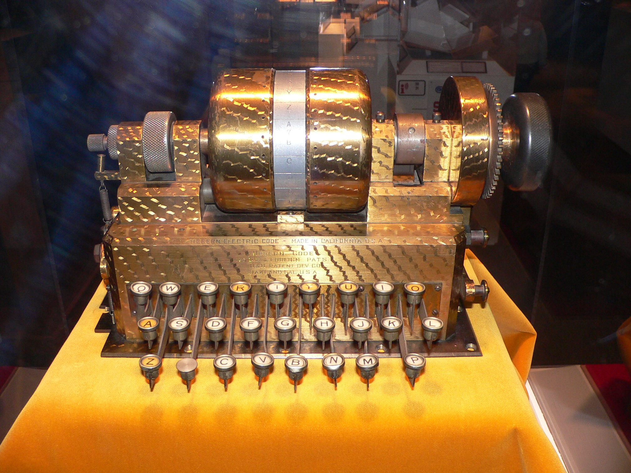 Pictures taken by myself at the US National Cryptologic Museum.